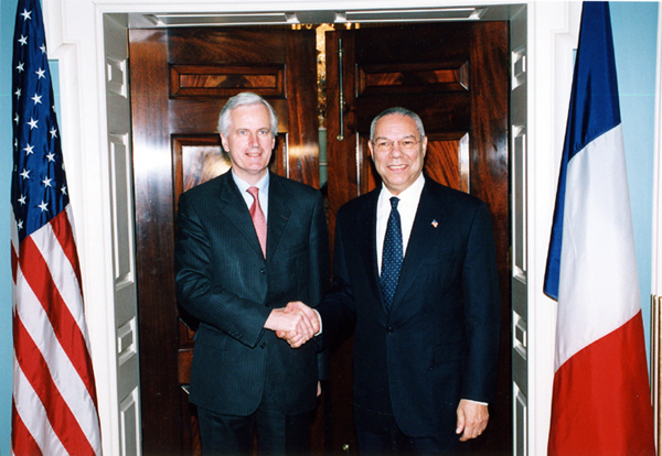 Secretary Powell with His Excellency Michel Barnier, Minister of Foreign Affairs of the French Republic, during courtesy call. Department of State photo by Michael Gross.